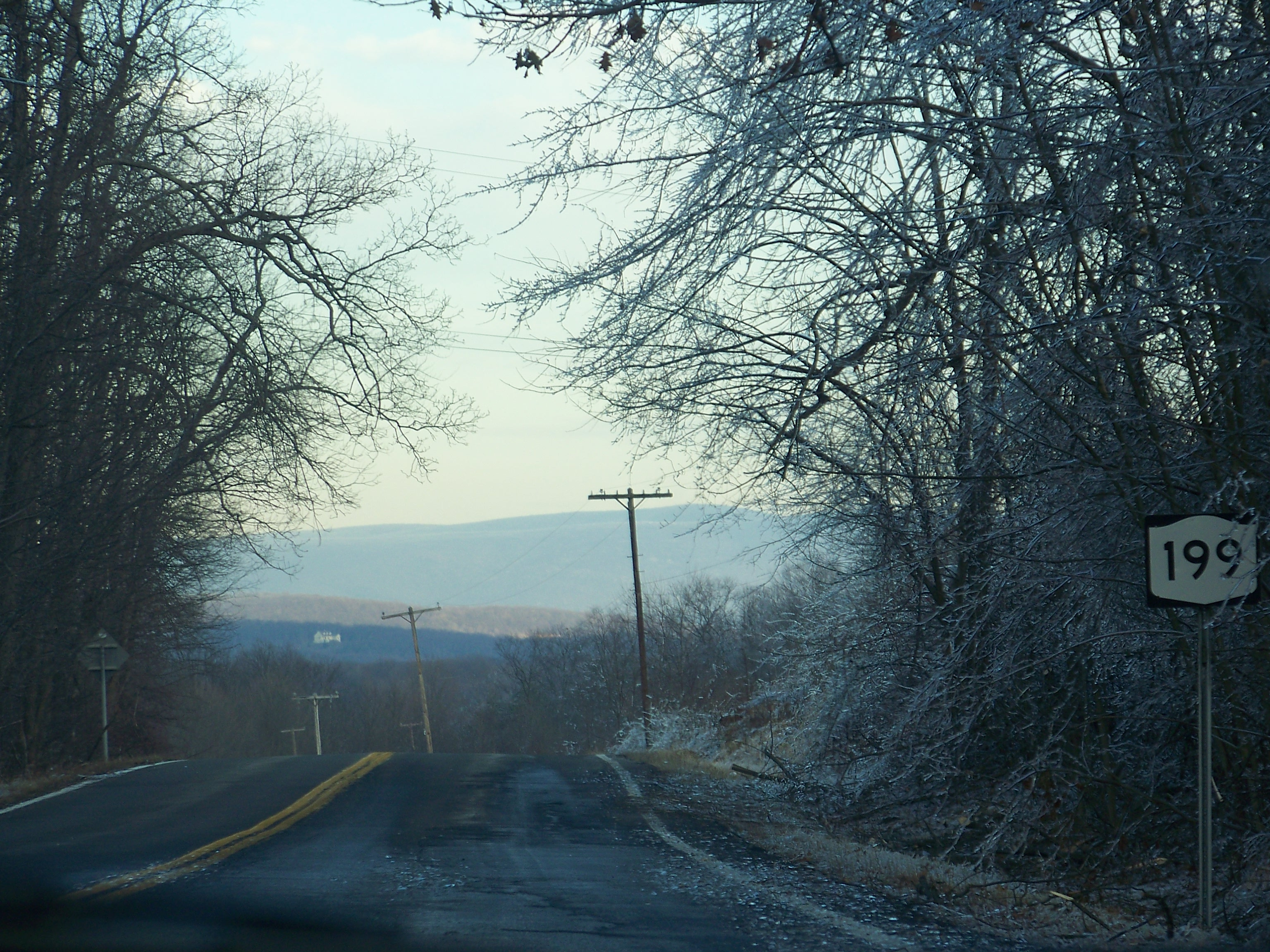 Trees coated in ice from the December 2008 ice storm of New England and Upstate New York in Dutchess County